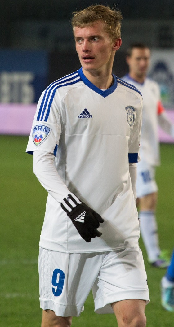 Artyom Dudolev with FC Sokol Saratov in a game against FC Dynamo Moscow.